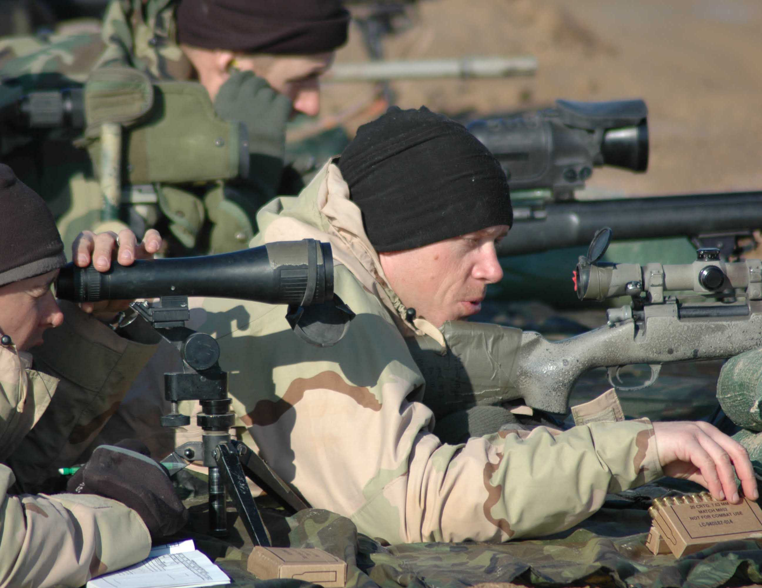 Soldiers from the Arkansas National Guard’s 39th Brigade Combat Team, 1st Cavalry Division, practice marksmanship at their new sniper range near Baghdad, Iraq. The training was formerly conducted at Camp Joseph T. Robinson, North Little Rock, Ark. This photo appeared on